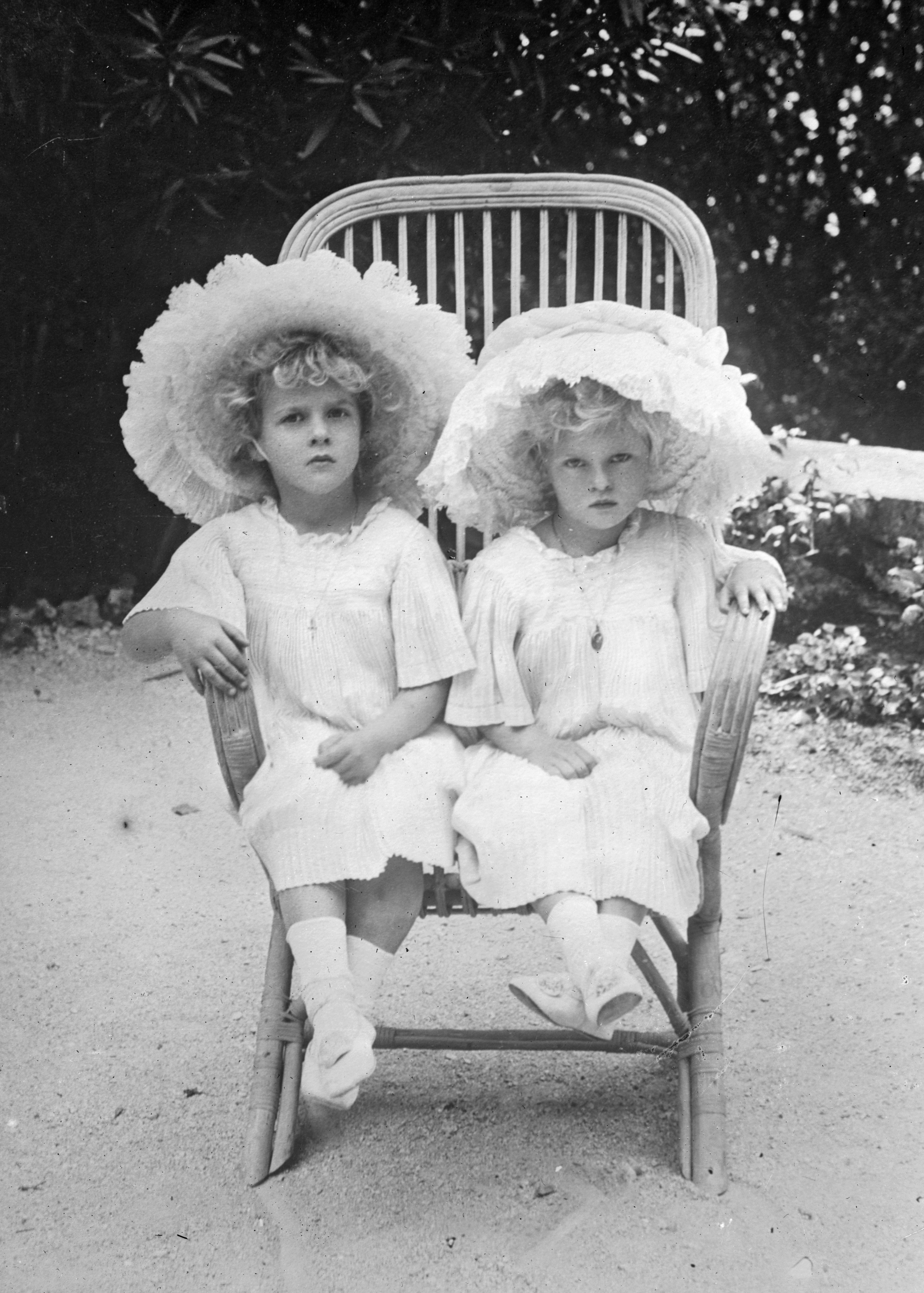 Princesses Margarita (1905-1981) and Theodora (1906-1969) of Greece and Denmark in 1910. They were daughters of Prince Andrew of Greece and Denmark and Princess Alice and elder sisters of Prince Philip, Duke of Edinburgh.